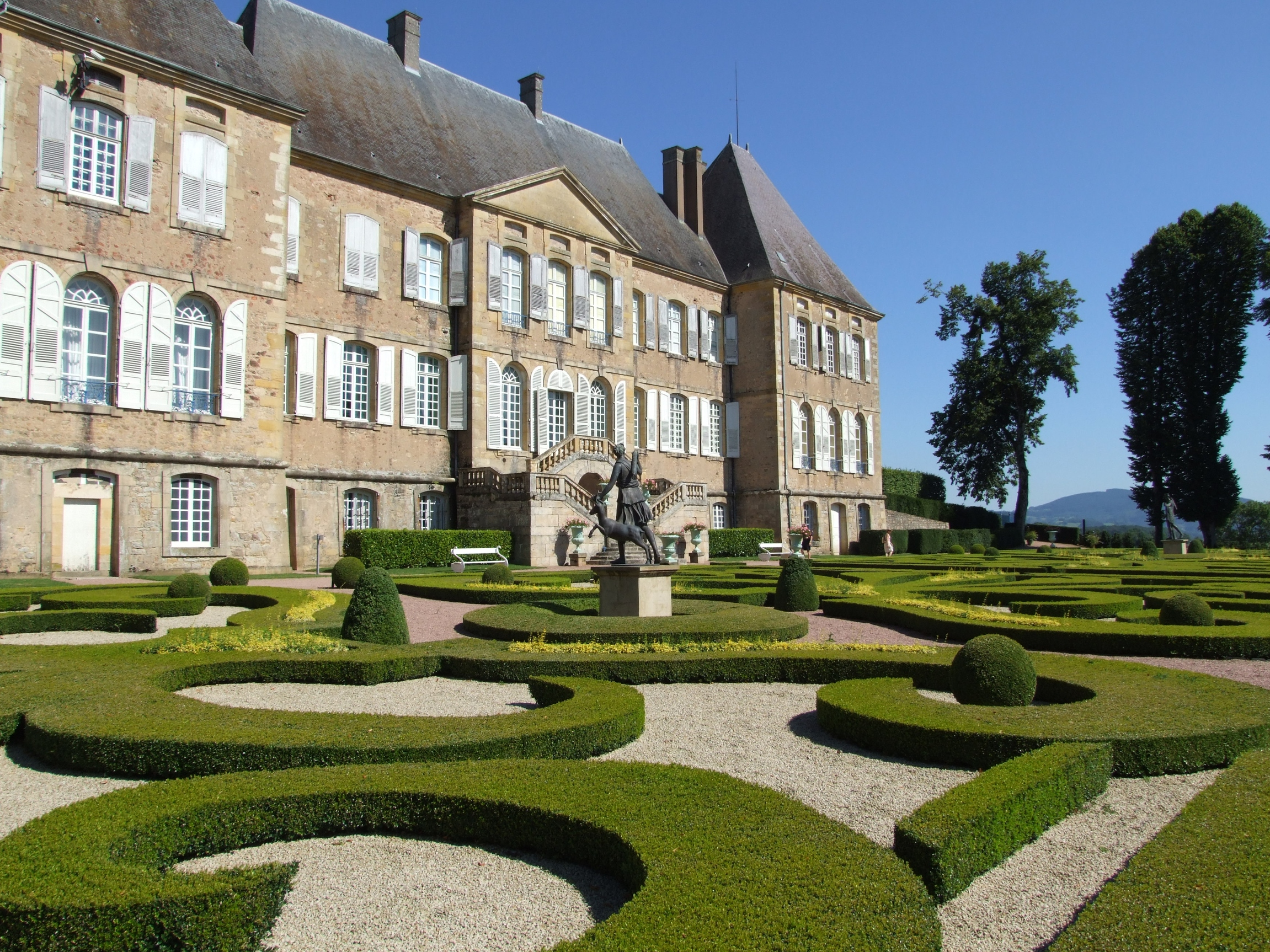 The Parterre garden at Château de Drée, Saone et Loire, Bourgogne-Burgundy, France.